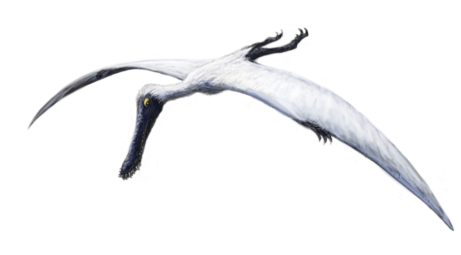 Plataleorhynchus streptophorodon.